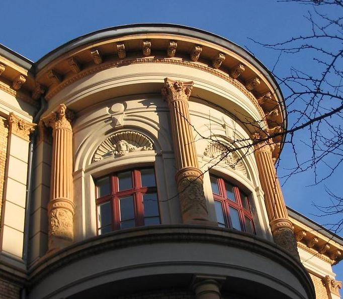 Listed building, former „Gertrauden-Hospital“, in Berlin-Kreuzberg. Built by Friedrich Koch in 1871/73 and 1883/84. Detail porch.